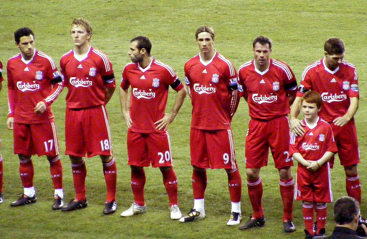 Liverpool F.C. players line up before match against Wigan Athletic. From left to right, Maxi Rodriguez, Dirk Kuyt, Javier Mascherano, Fernando Torres, Jamie Carragher, and Steven Gerrard.